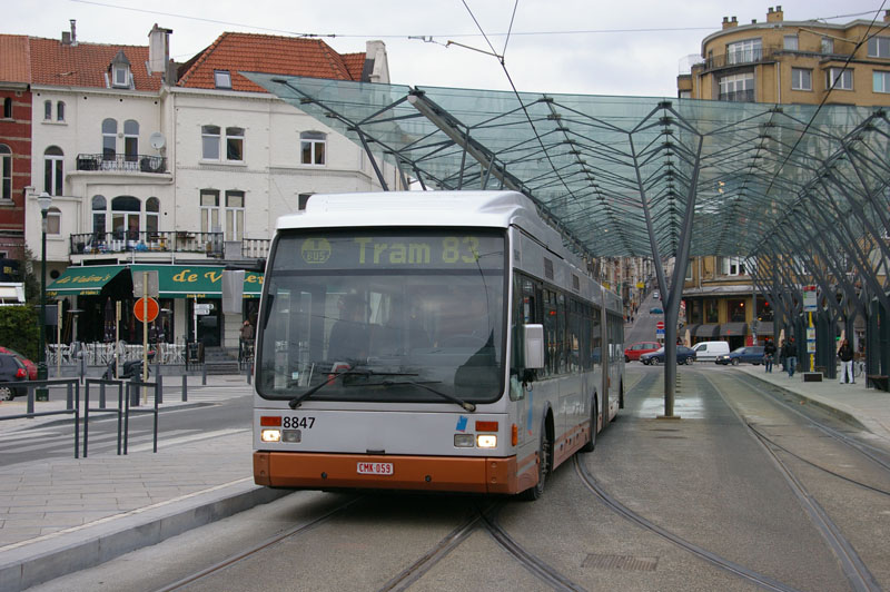 FLAGEY